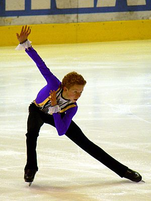 Kevin Reynolds dabs during his free skate at the 2005 Junior Grand Prix event in Croatia